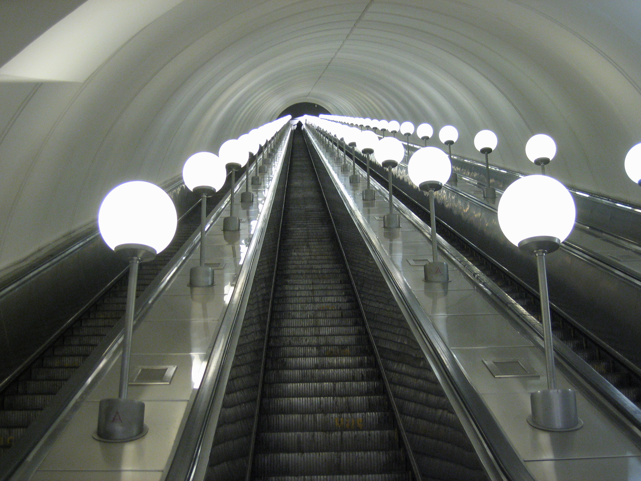 Escalator at the Park Pobedy station of Moscow Metro